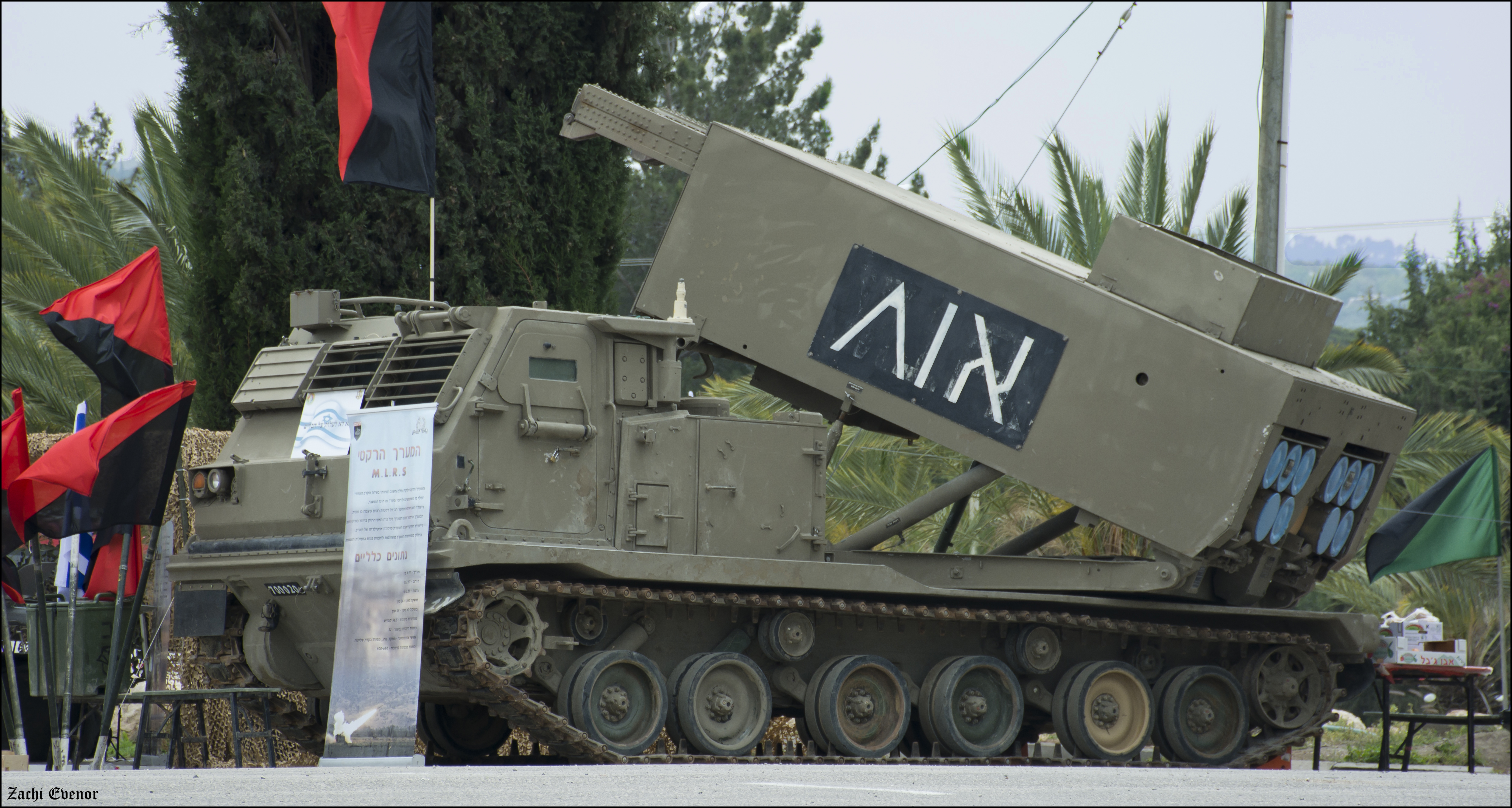 IDF "Menatetz" M270 MLRS multiple launch rocket system